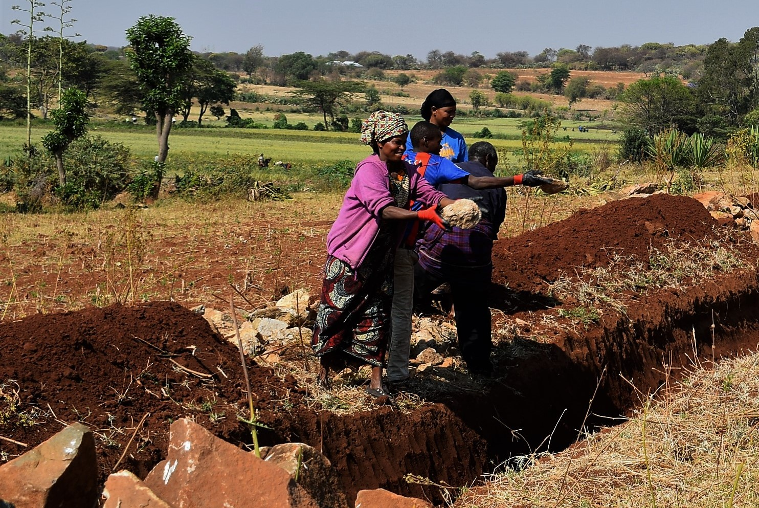 Women throwing rocks to make piles for the masonry walls of an irrigation canal This is an image of "African people at work" from Tanzania